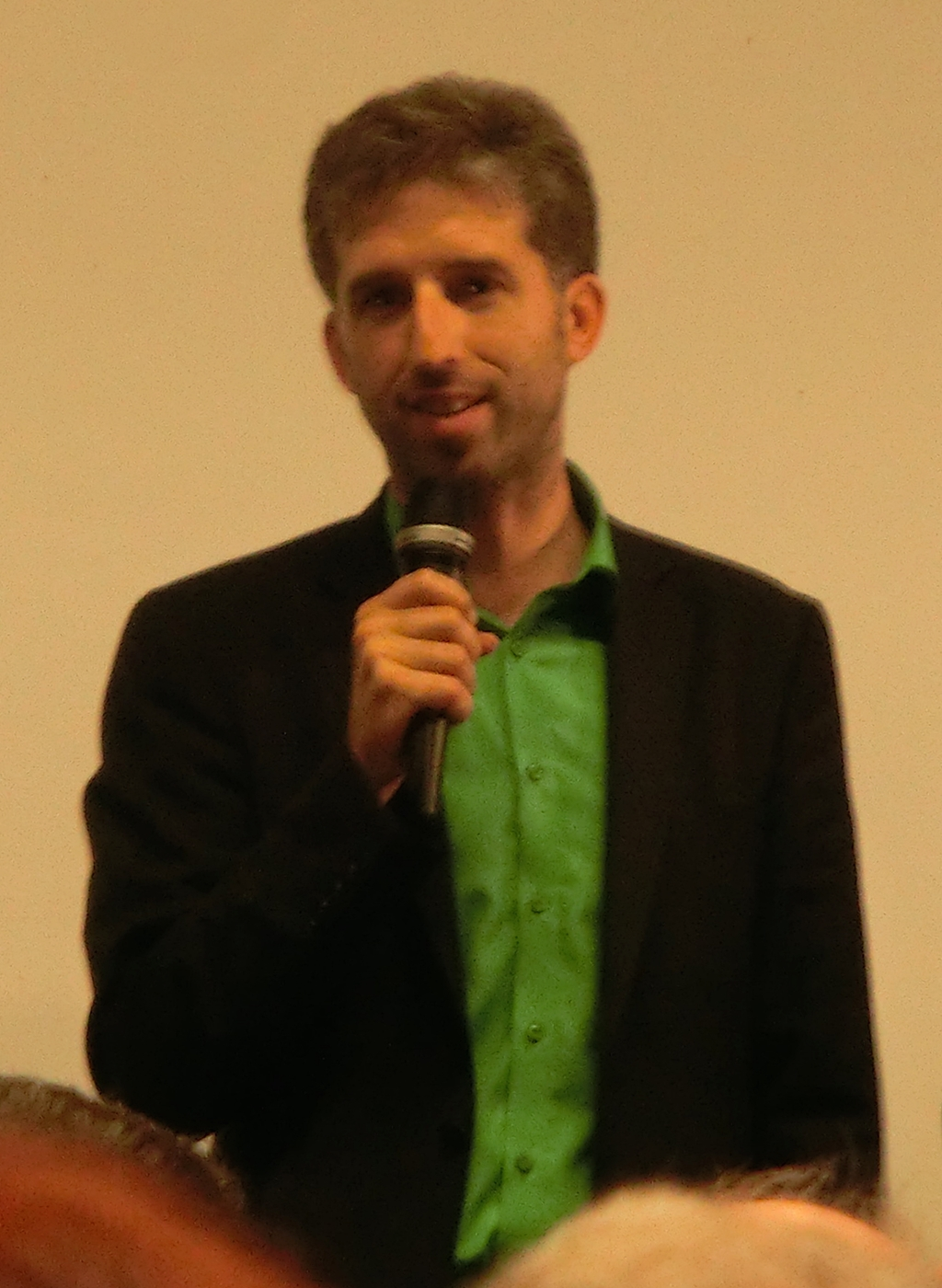 Boris Palmer (* 1972), German politician (Green Party), after his re-election as mayor of Tübingen on 19th October 2014.